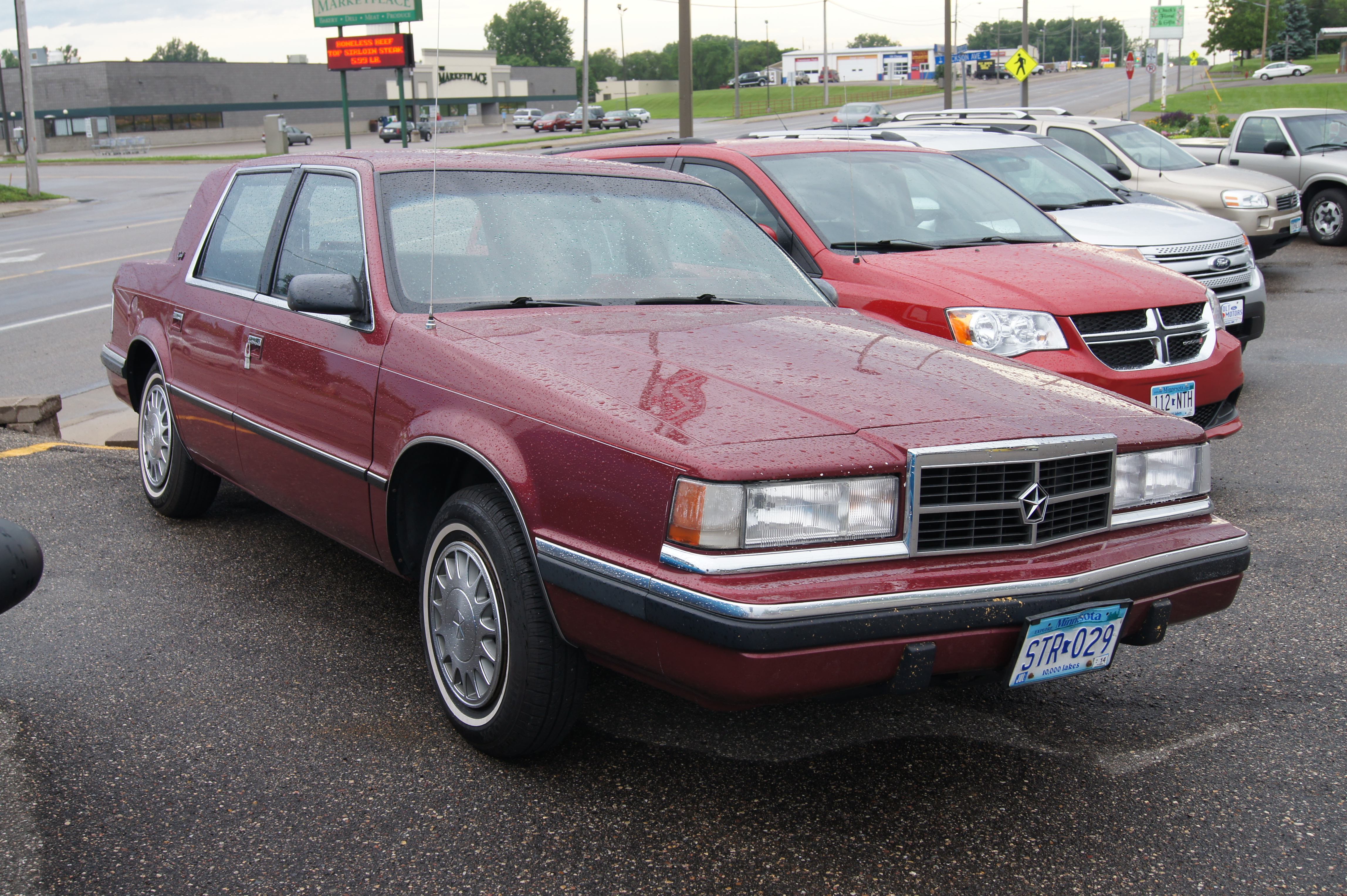 I bought my 2005 Dodge Magnum RT from Walser Chrysler Dodge in Hopkins. It came with free oil changes for life. I used to have relatives near the dealership that I would visit. They have all moved away, so now I just try to coordinate some car spotting for the trip. More Car Pictures